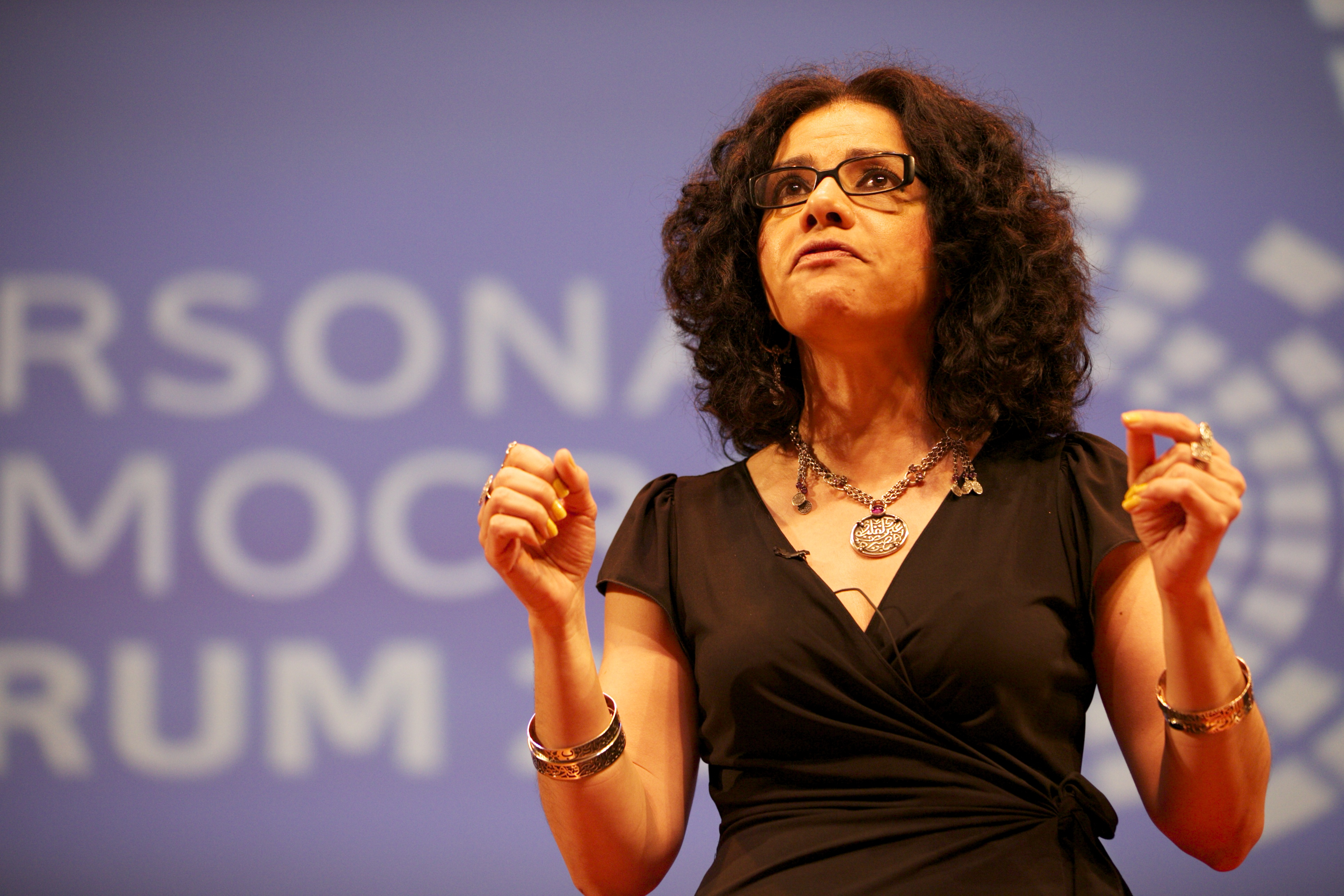 Mona Eltahawy (Arabic: منى الطحاوى, IPA: [ˈmonæ (ʔe)ltˤɑˈħɑːwi]) speaking at the Personal Democracy Forum 2011 at New York University's Skirball Center for the Performing Arts. Photograph taken on 6 June 2011 by Esty Stein for Personal Democracy Forum.